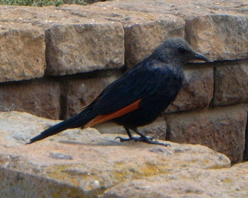 A female Red-winged Starling at Cape Point, South Africa.